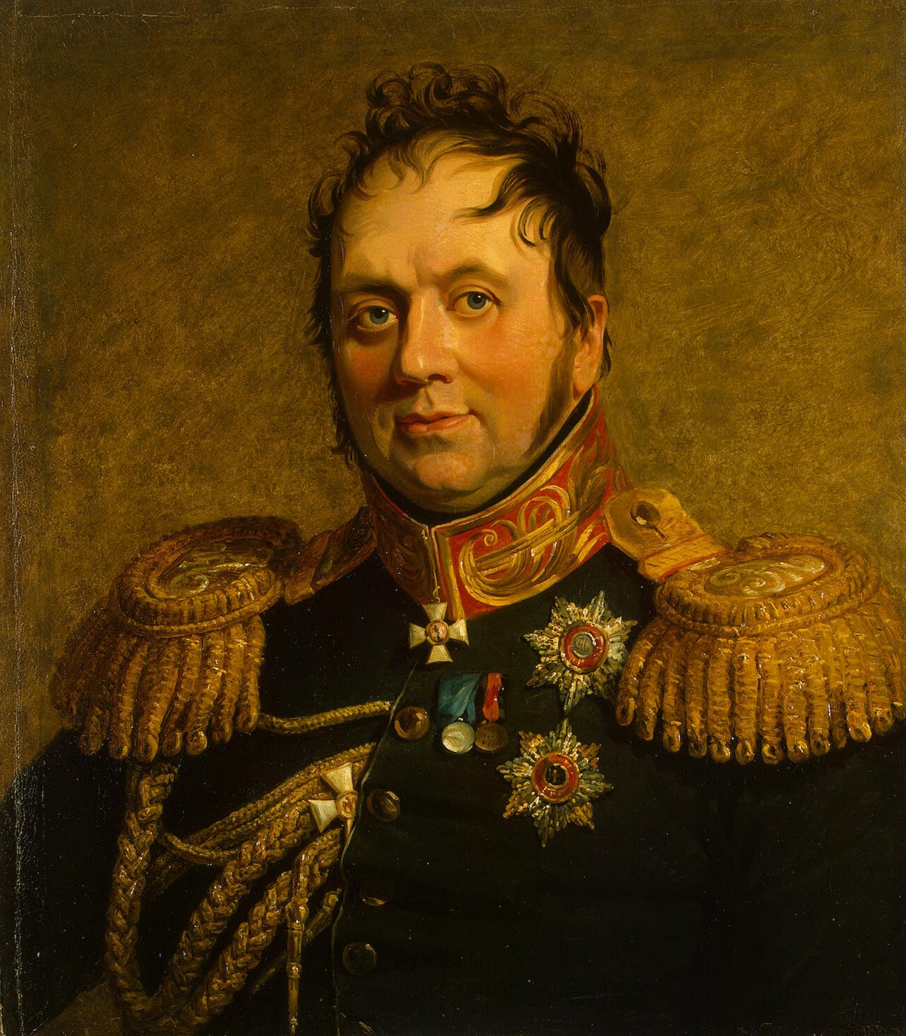 Korf, Fyodor Karlovich (05.04.1773 – 30.08.1823) russian lieutenant general